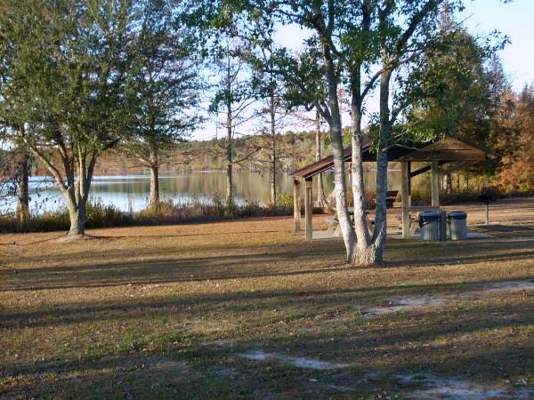 The picnic area at Jones Lake State Park